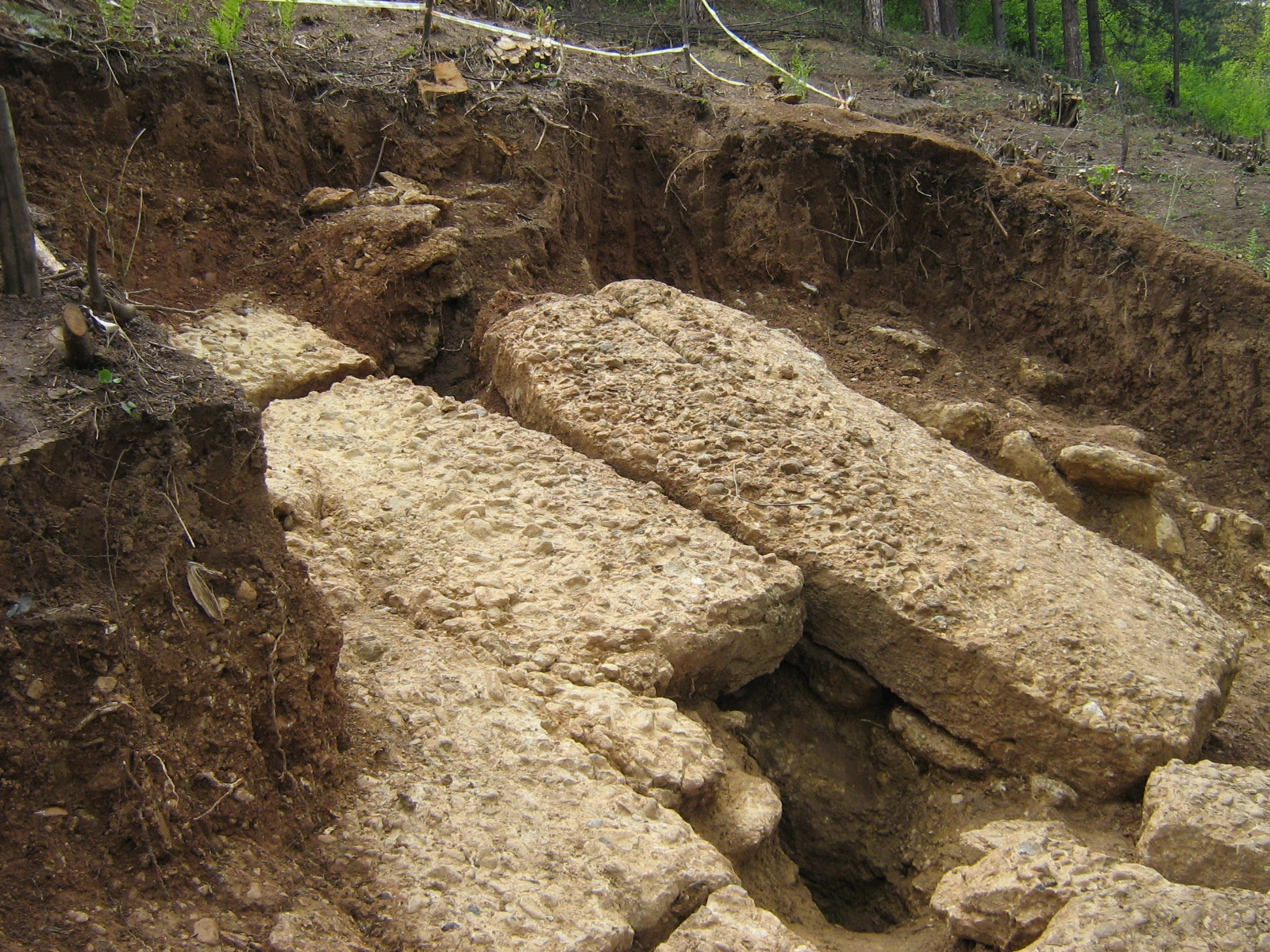 Excavations in sondage bunars around Visocica, alleged Bosnian pyramid